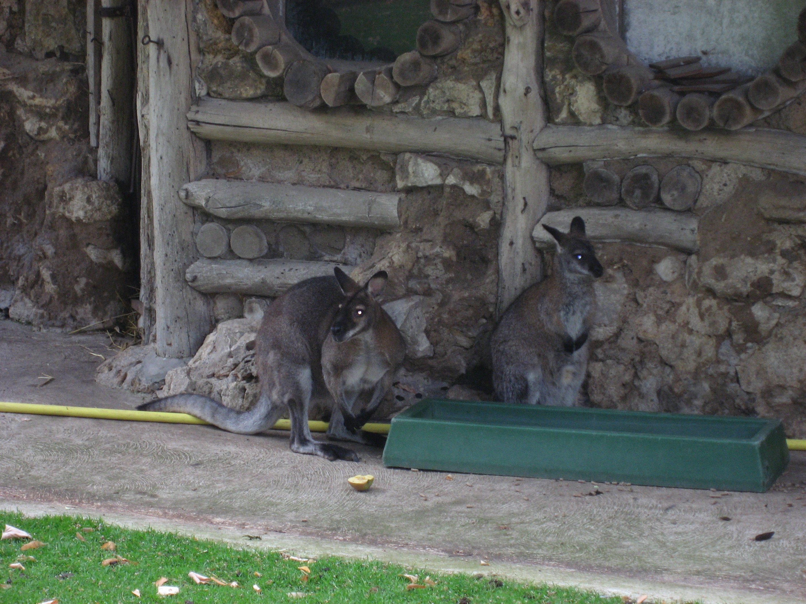 Macropus rufogriseus in Jardin Botanique de Tours Map: 47° 23' 16" N 0° 40' 0" E